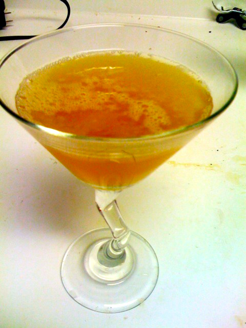 Ritz Sidecar - the most expensive drink in the world